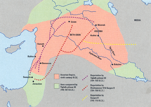 Deportation of Jews by Assyrian Empire